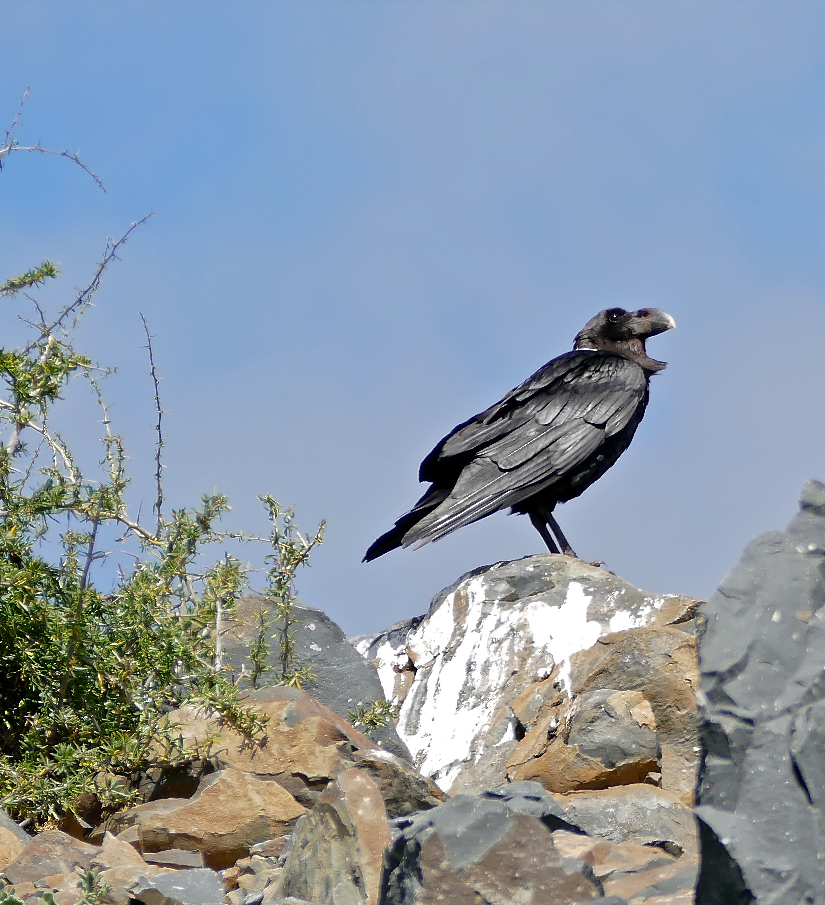 N12 Road South of Beaufort West, Western Cape, SOUTH AFRICA